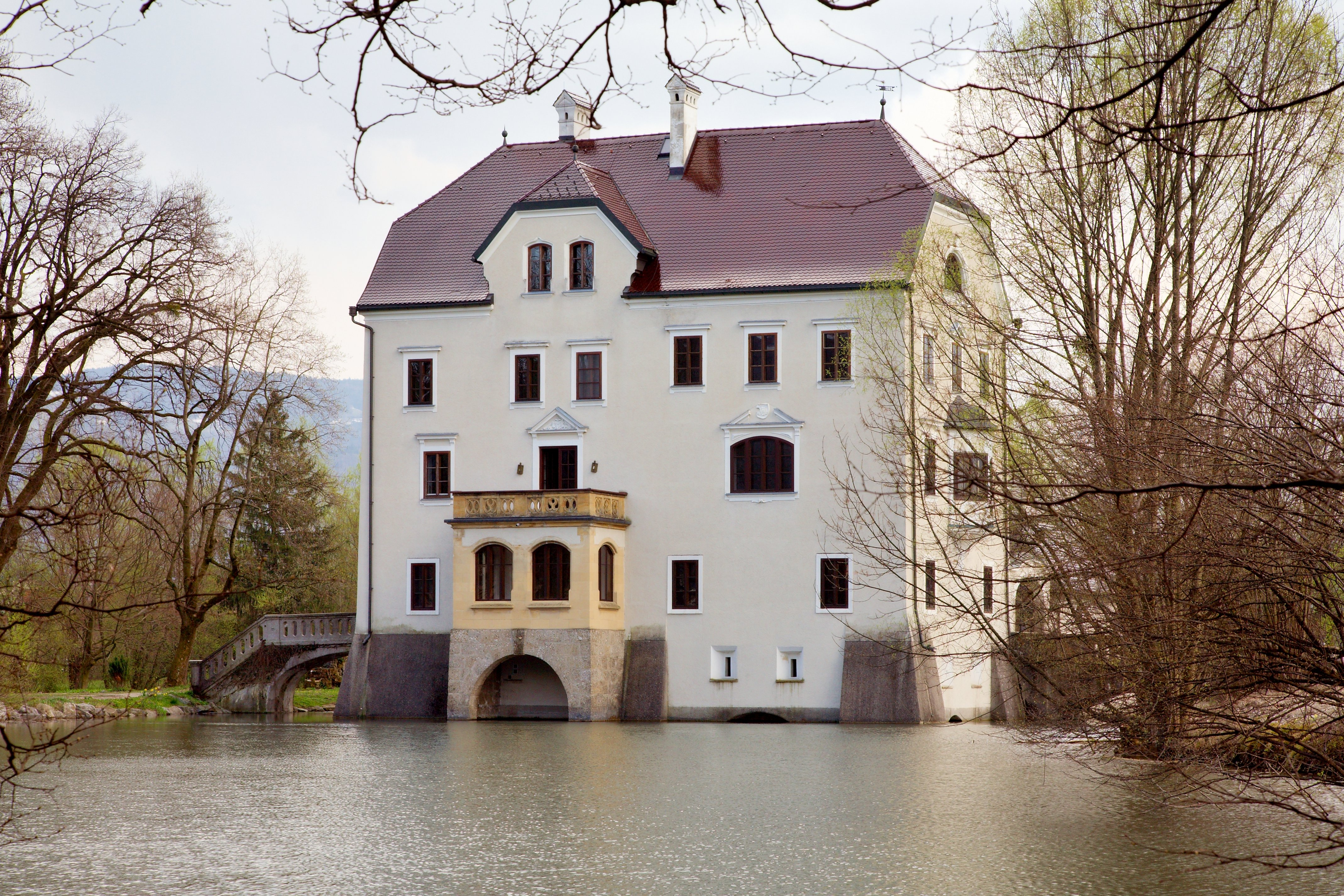 Palace Freisaal in Salzburg